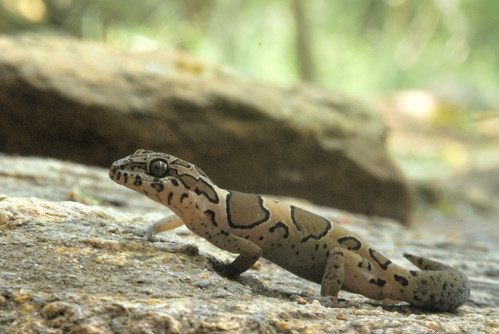 Photograph of the Kollegal Ground Gecko (Cyrtodactylus collegalensis Syn. Geckoella collegalensis)